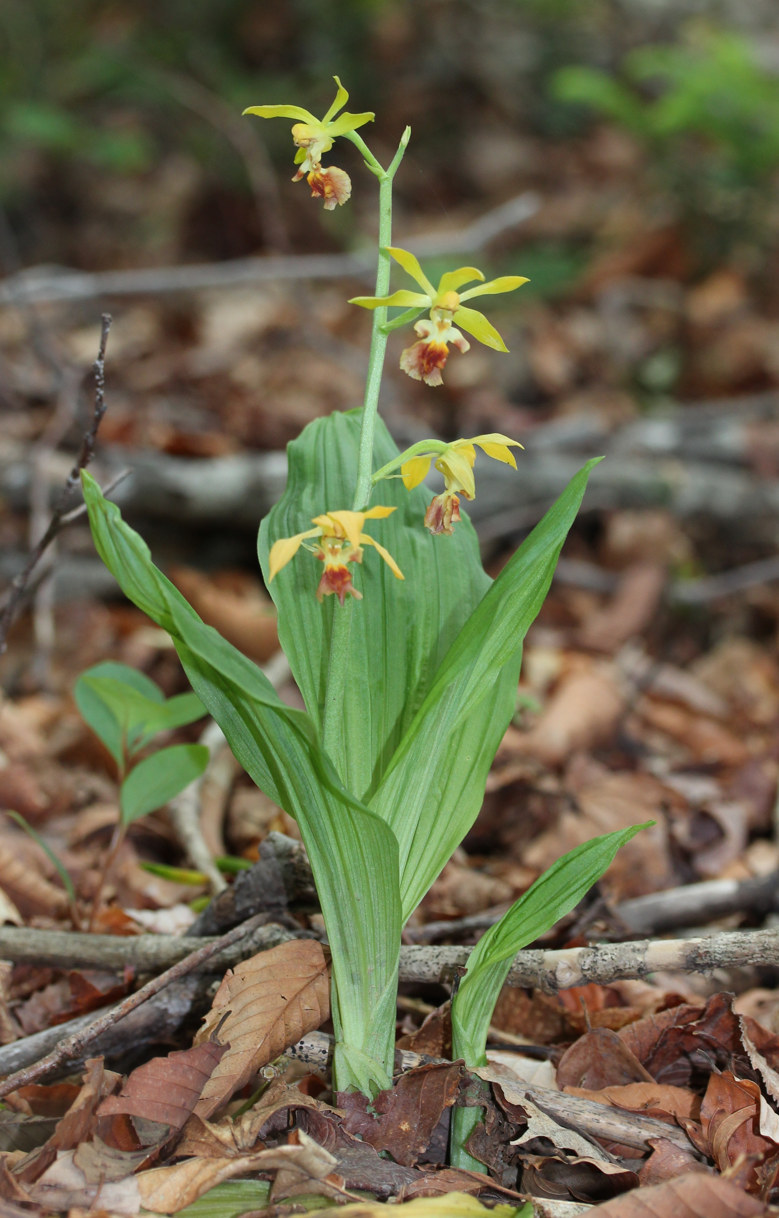 Calanthe tricarinata, in Gifu pref., Japan.